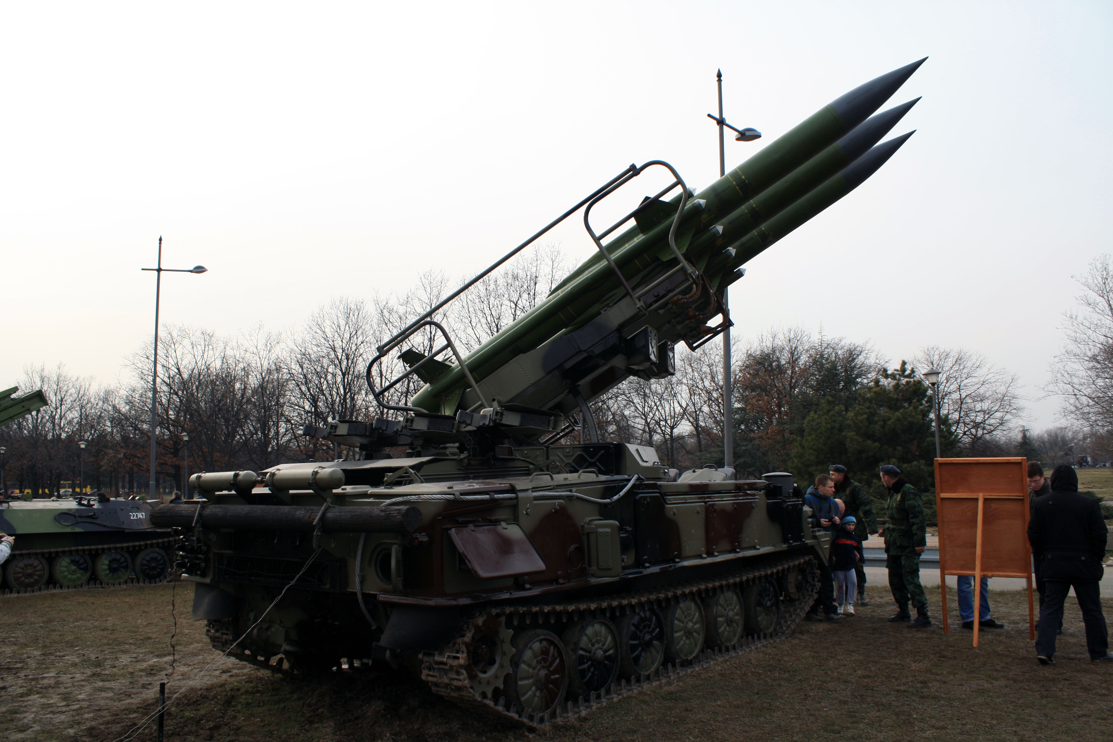 2K12 Kub SAM of Serbian Army 250th Air Defense Brigade on display after military exercise "Ušće 2011".